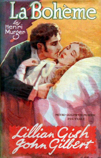 The poster for the film La bohème (USA, 1926, dir. King Vidor).